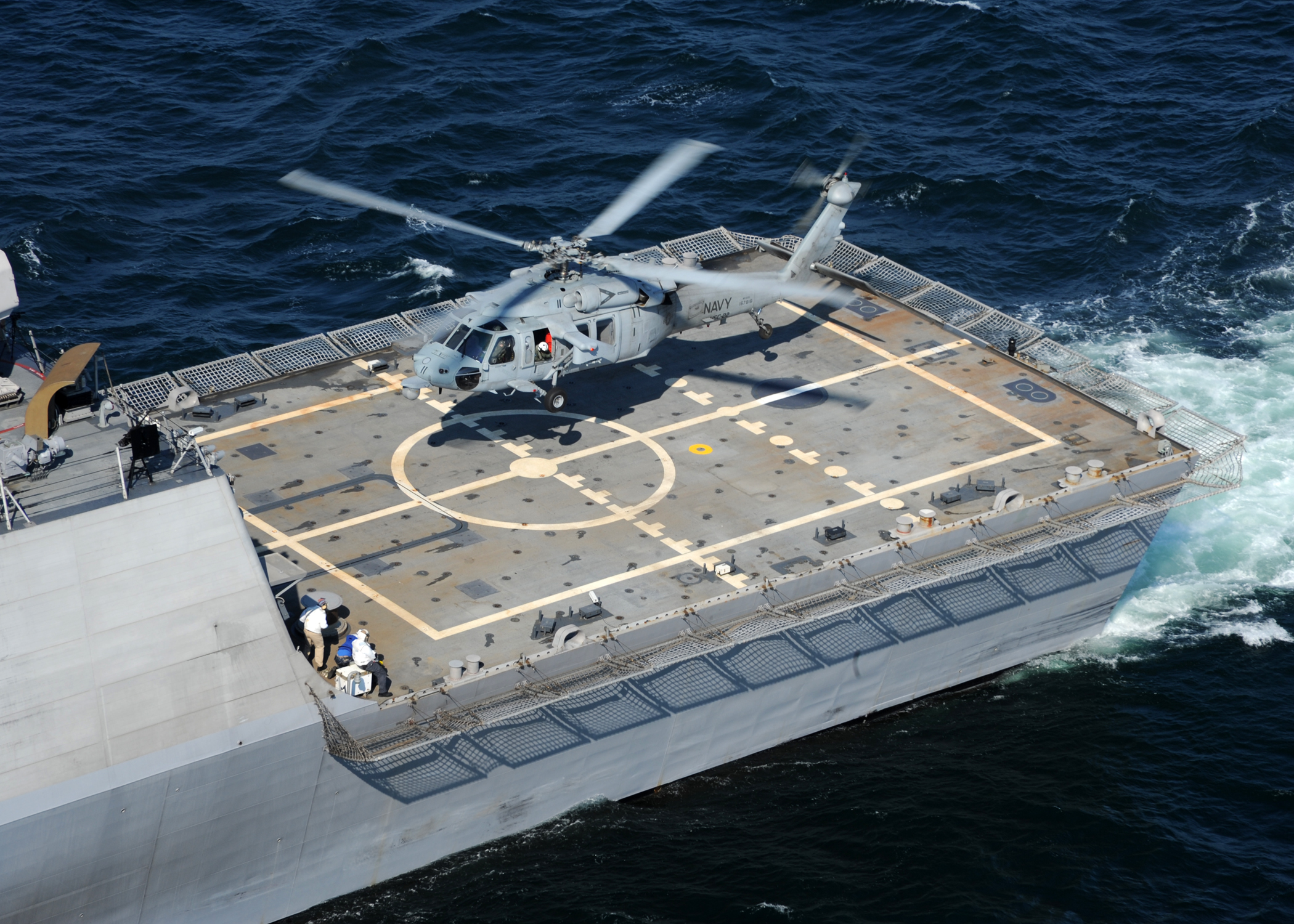 ATLANTIC OCEAN (Sept. 28, 2009) The littoral combat ship USS Freedom (LCS 1) conducts flight deck certification with an MH-60S Sea Hawk helicopter assigned to the Sea Knights of Helicopter Sea Combat Squadron (HSC) 22. (U.S. Navy photo by Mass Communication Specialist 2nd Class Nathan Laird/Released)